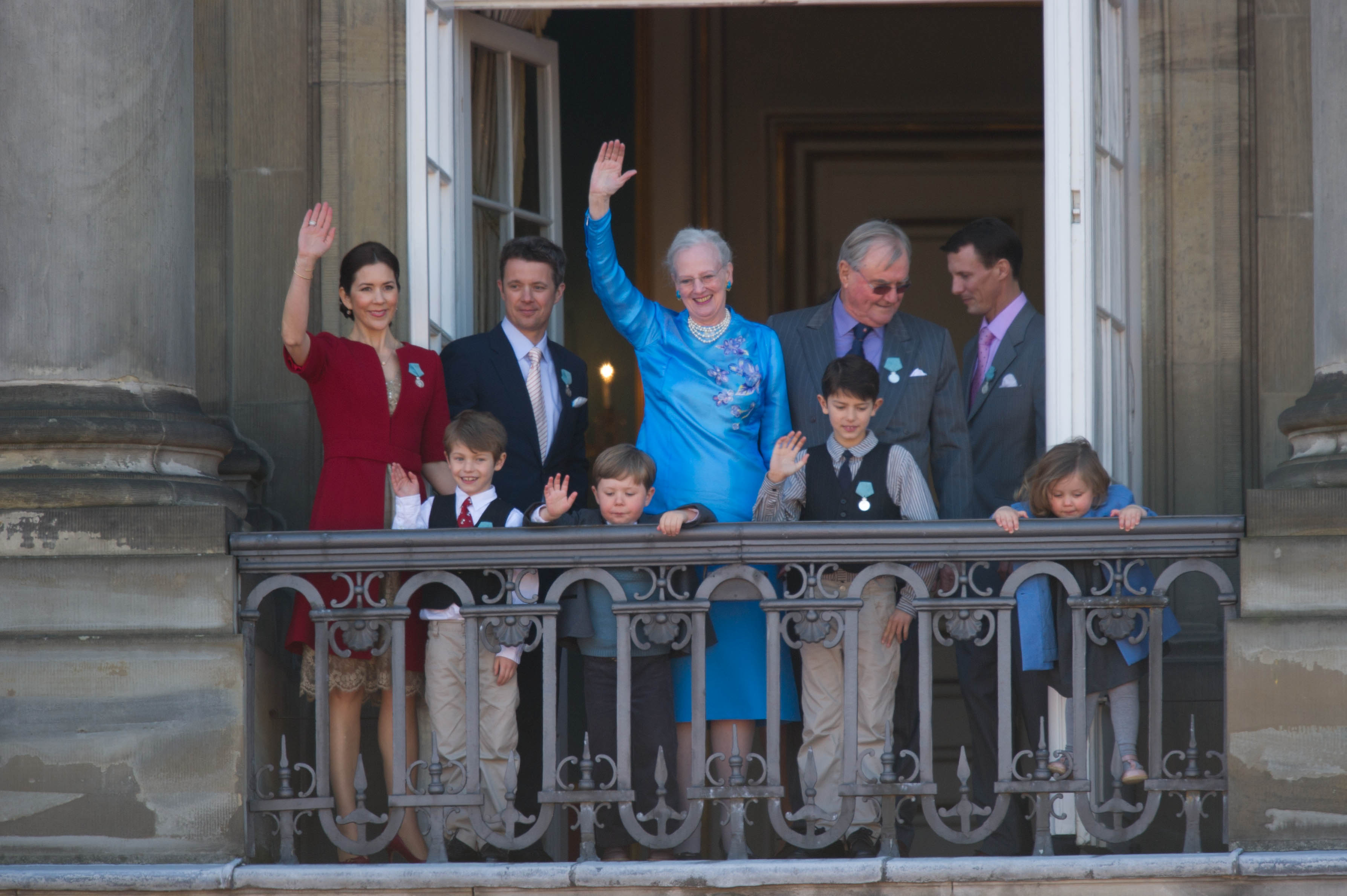 Picture showing the Royal Family of Denmark during Queen Margrethe II 70th birthday, 16 April 2010